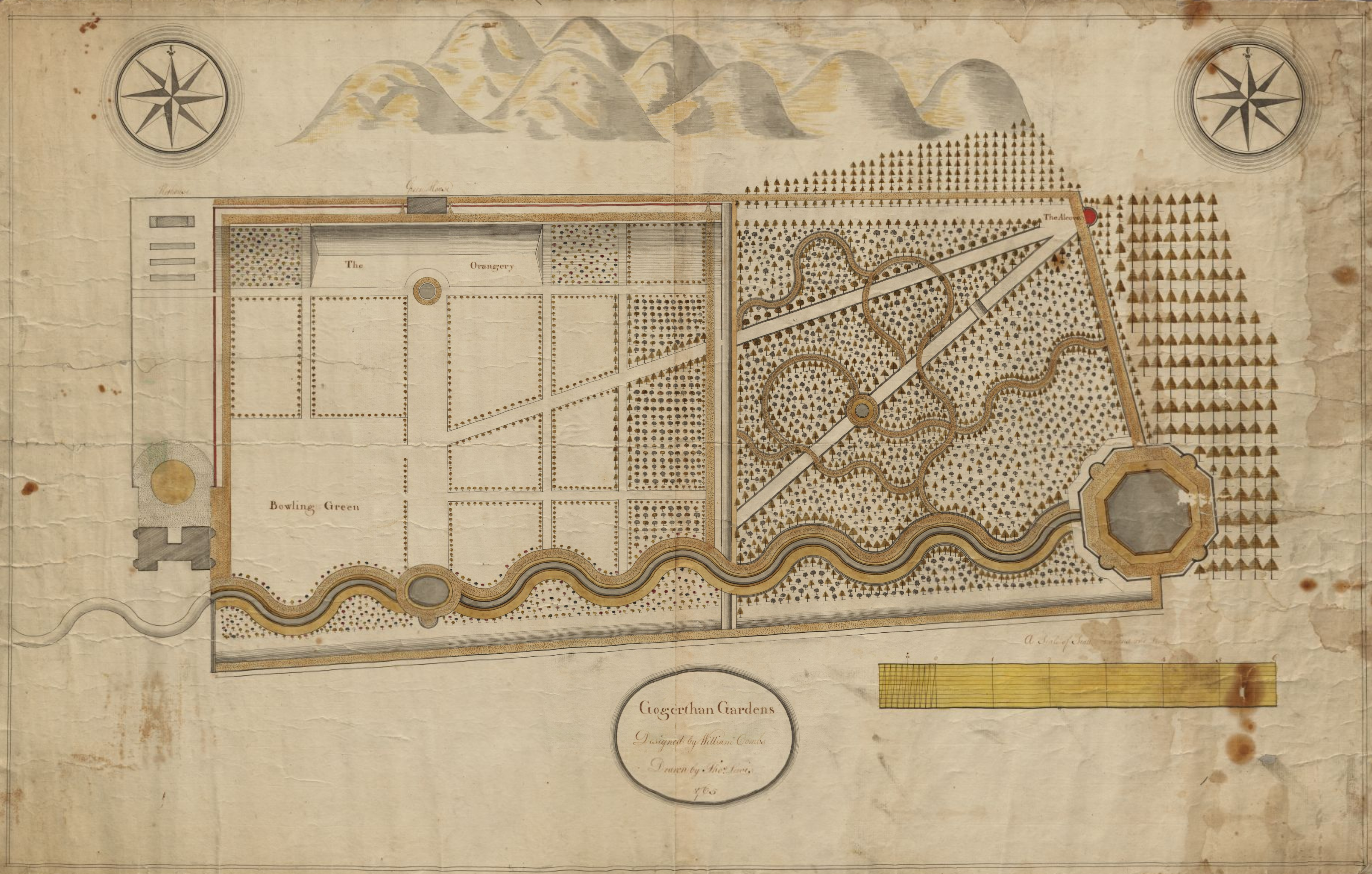 Plan of Gardens at Gogerthan in Cardiganshire